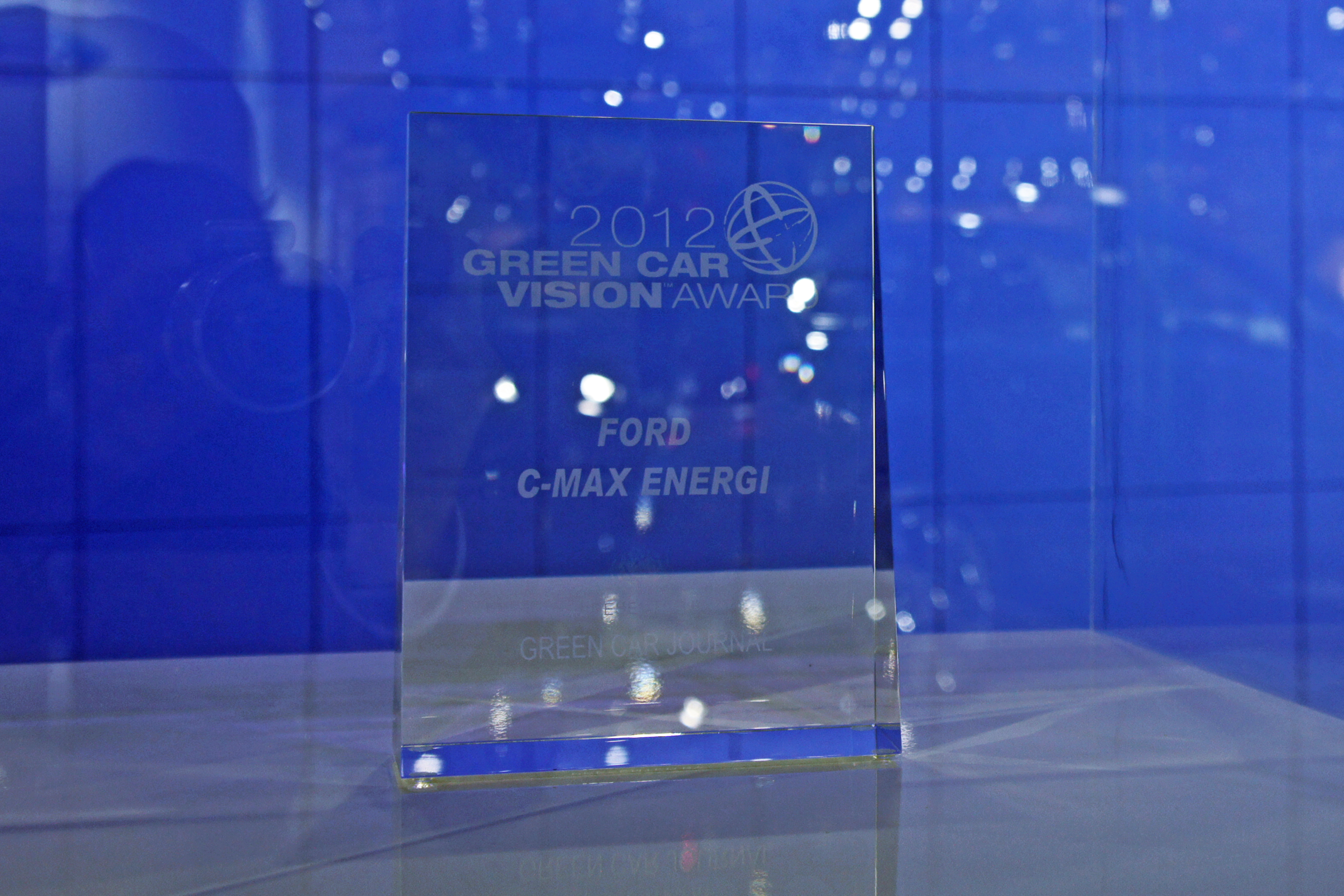 Green Car Vision Award won by the 2013 Ford C-Max Energi plug-in hybrid, 2012 Washington Auto Show (District of Columbia)